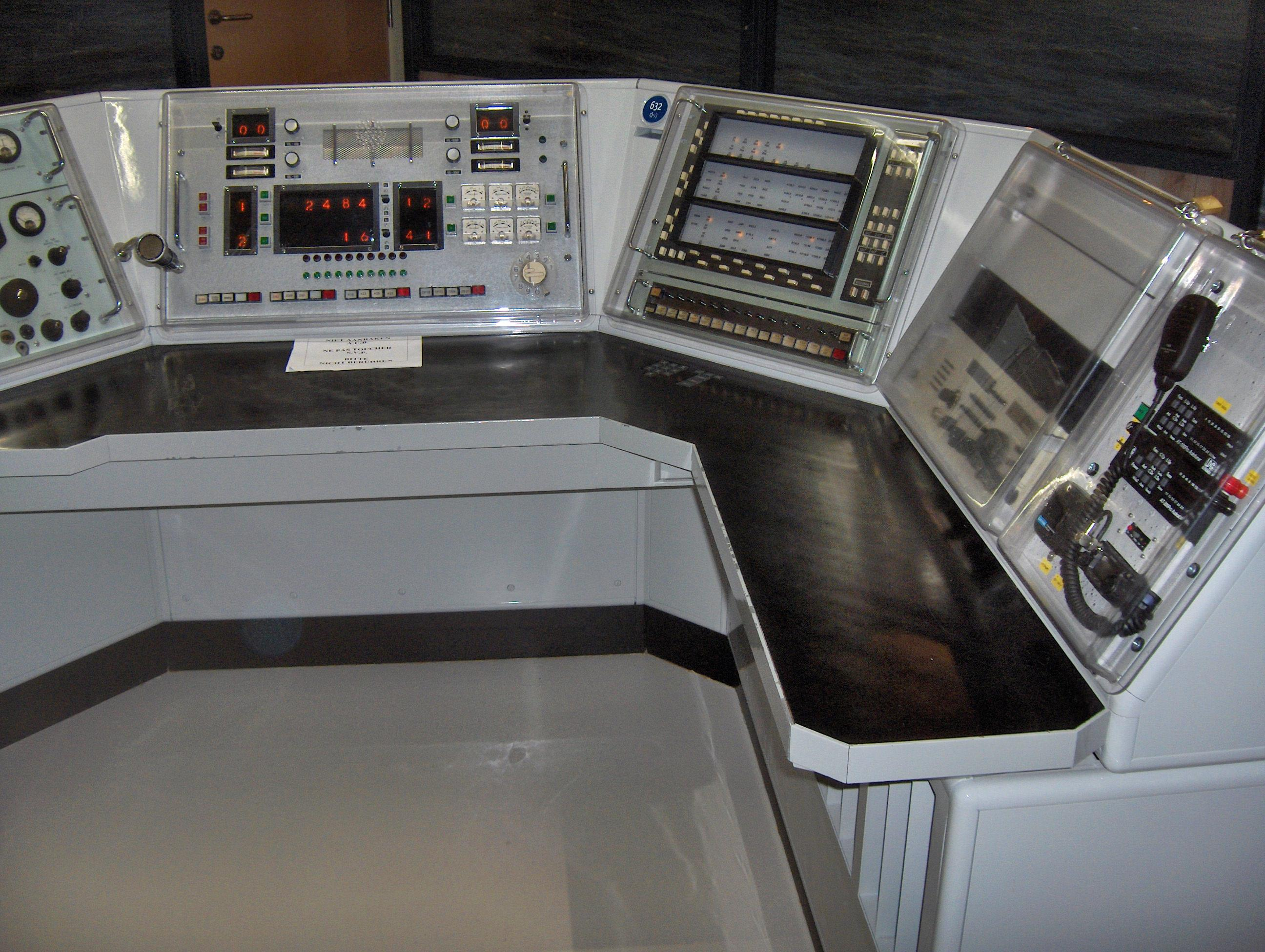 Radio equipment of a maritime station ; National Fishery Museum, Oostduinkerke, Belgium